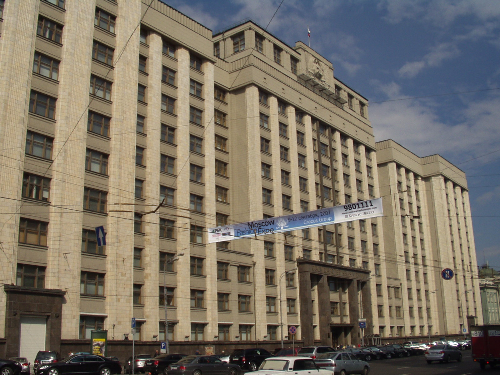 The Russian State Duma, Moscow, Russia